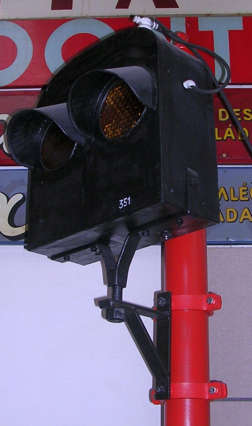 Střešovice, Prague, the Czech Republic. Old tram signalization.